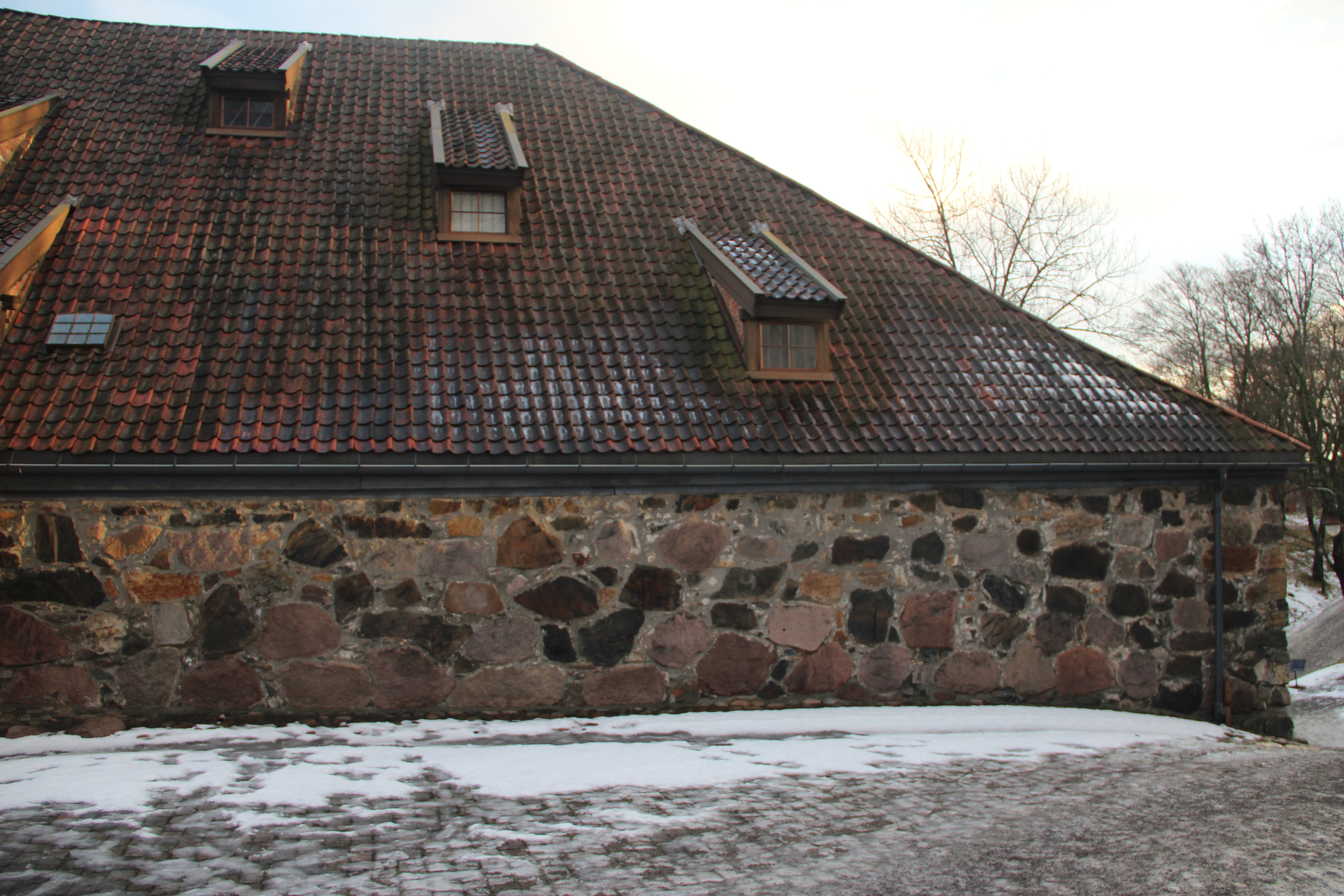 The wall of one of inner buildings in the Akershus Fortress where Vidkun Quisling was executed on October 24, 1945